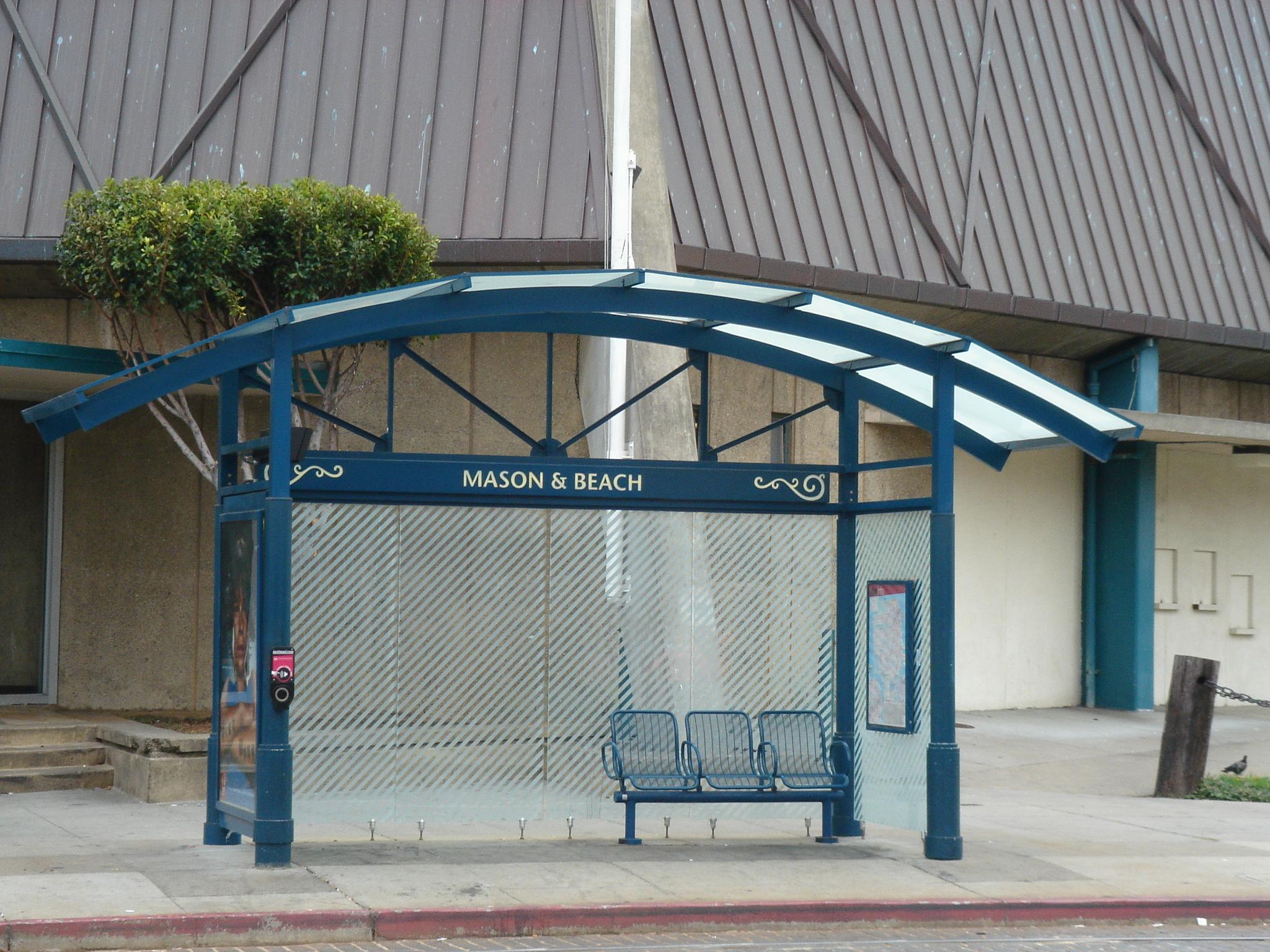 F Market & Wharves Beach and Mason station